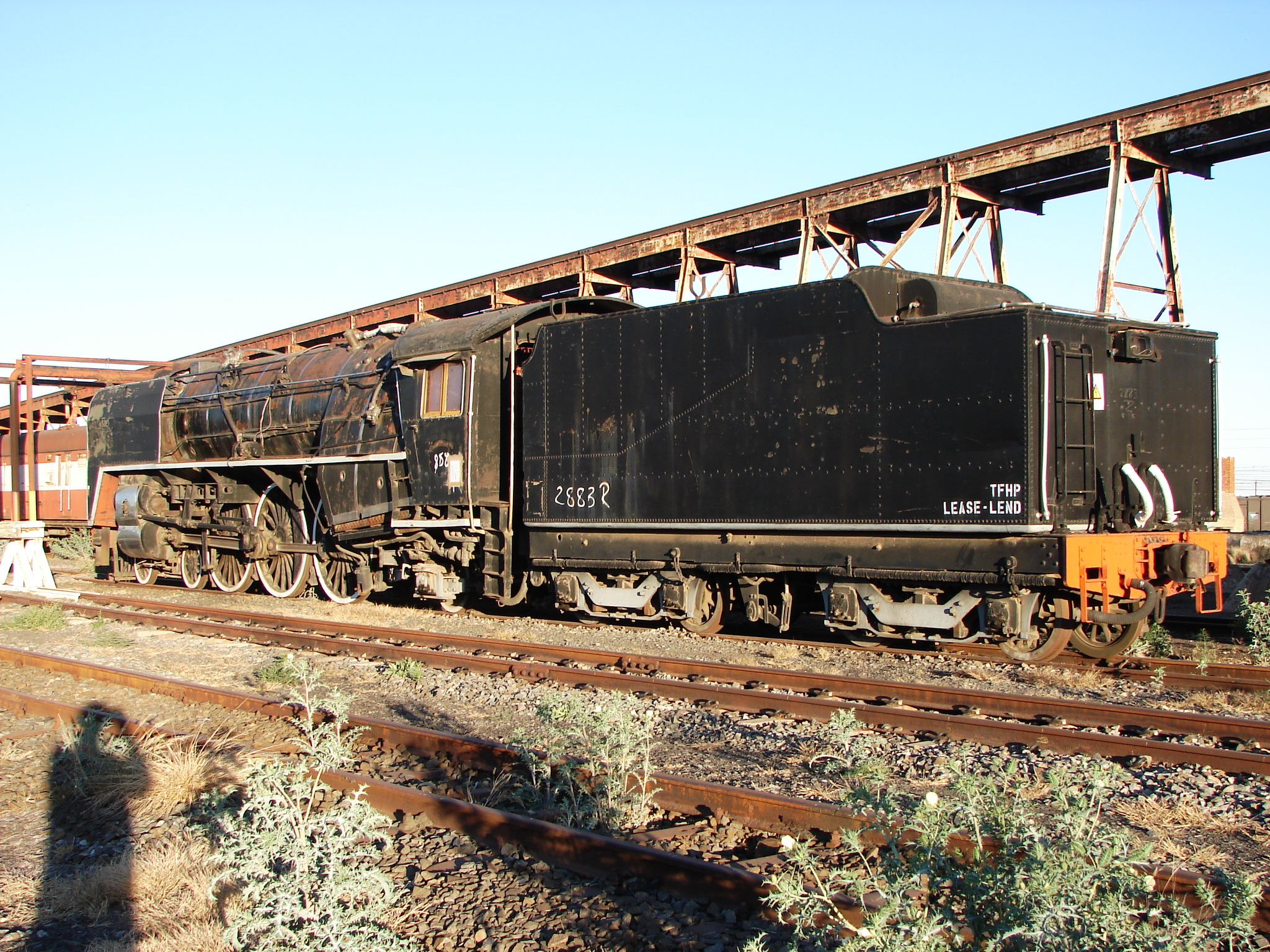 SAR Class 16E 858 (4-6-2) with Type JT tender no. 2883, off Class 15E 4-8-2 no. 2883 Location: Beaconsfield, Kimberley, Northern Cape